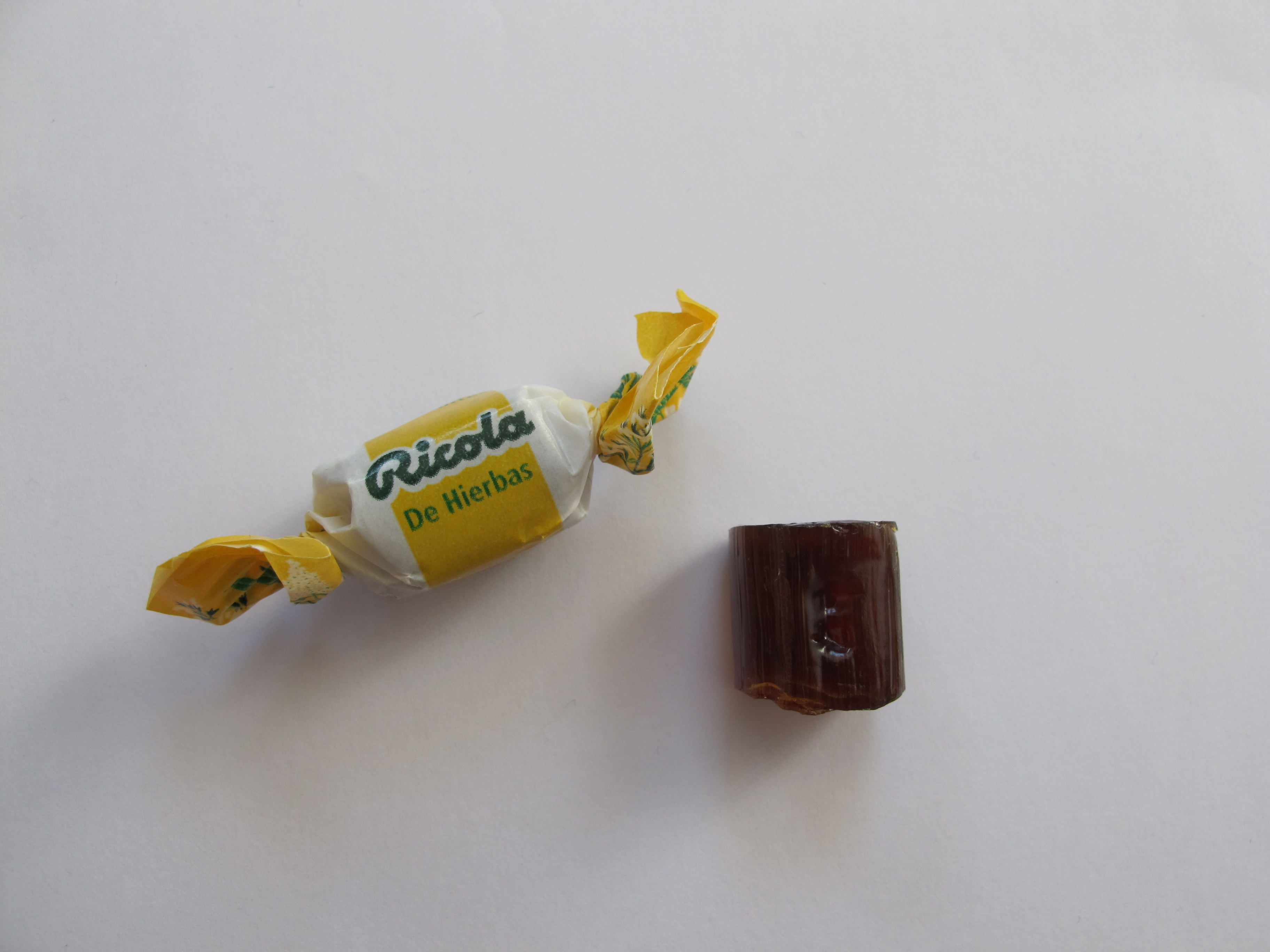 Ricola coughdrop with herbs